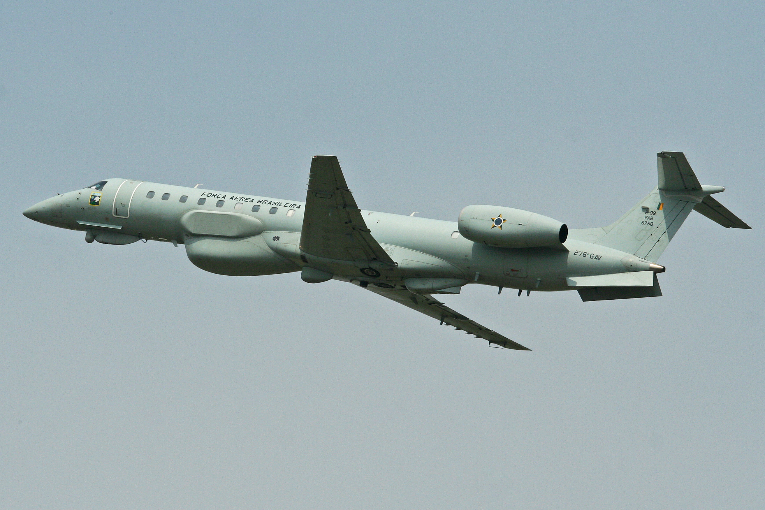 Operated by 2º/6º GAv, Braziliian Air Force (FAB) and based at Anápolis. The R-99 is a 'remote sensing' conversion of the popular Emb145 regional jet. It employs a synthetic aperture radar, combination electro-optical and FLIR systems as well as a multi-spectral scanner. The aircraft also possesses signal intelligence and C3I capabilities. It was originally designated the R-99B but this was changed to R-99 in 2008. c/n 145140. Seen departing the 2013 RIAT at RAF Fairford. 22-7-2013